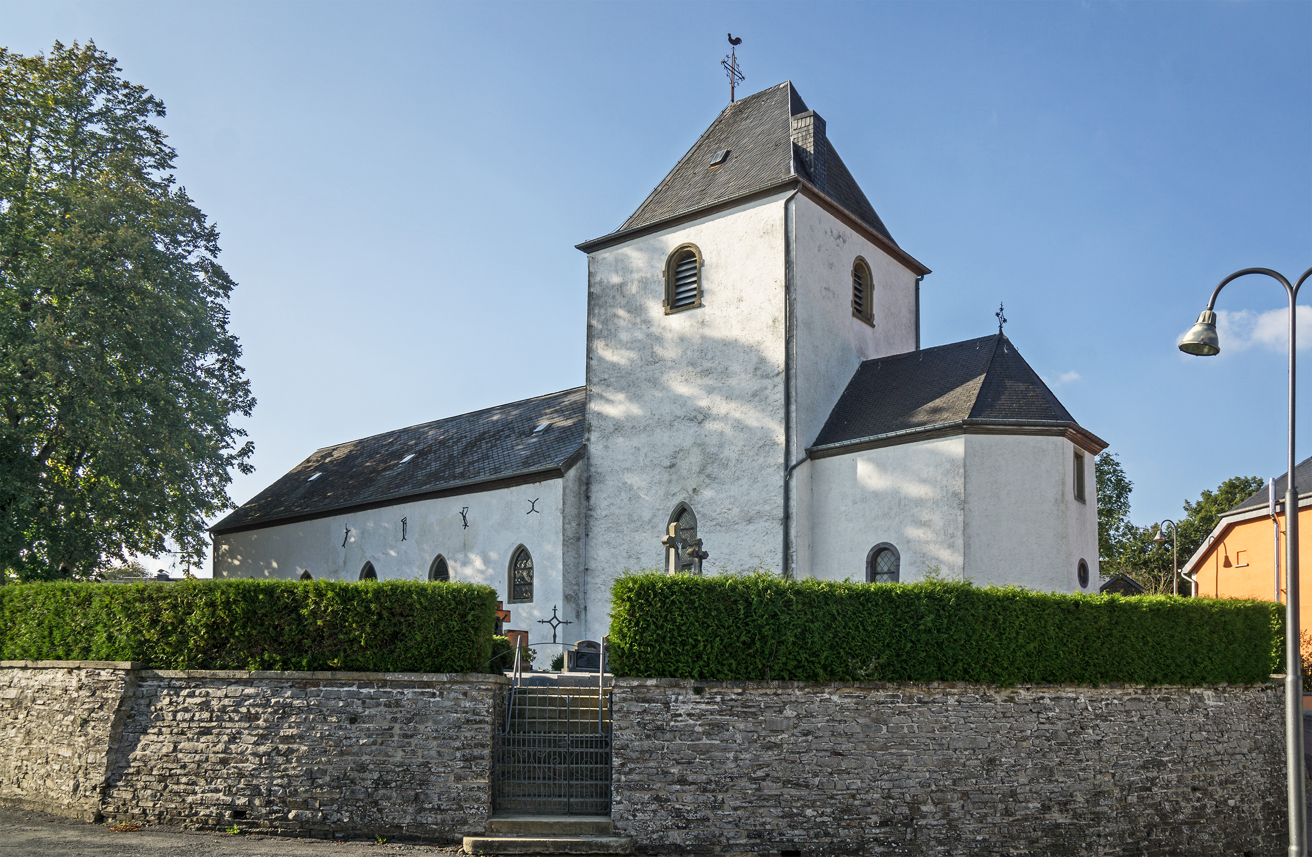 Church of Holler